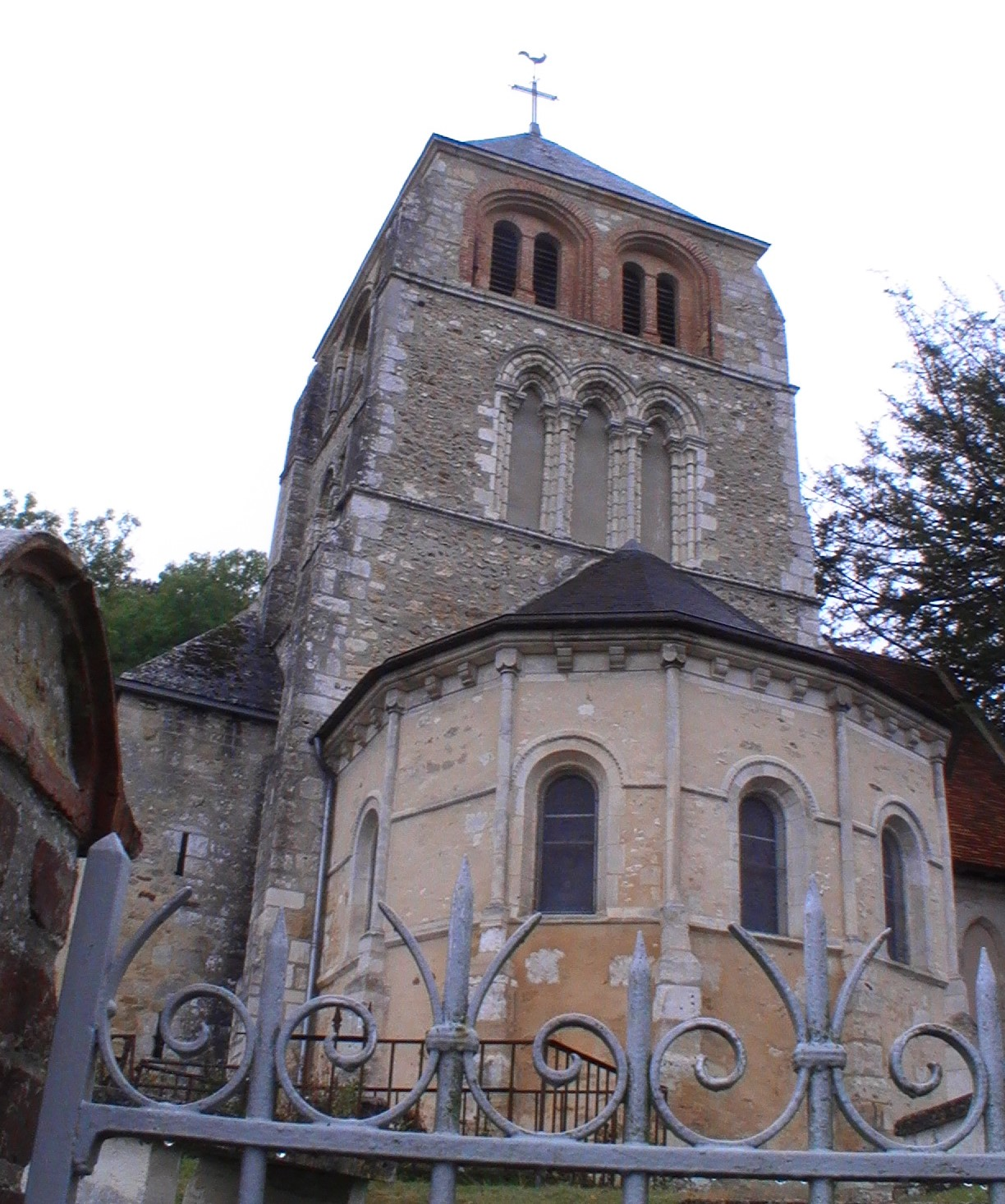 Eglise Saint-Georges d'Aubevoye par le sentier du Moutier